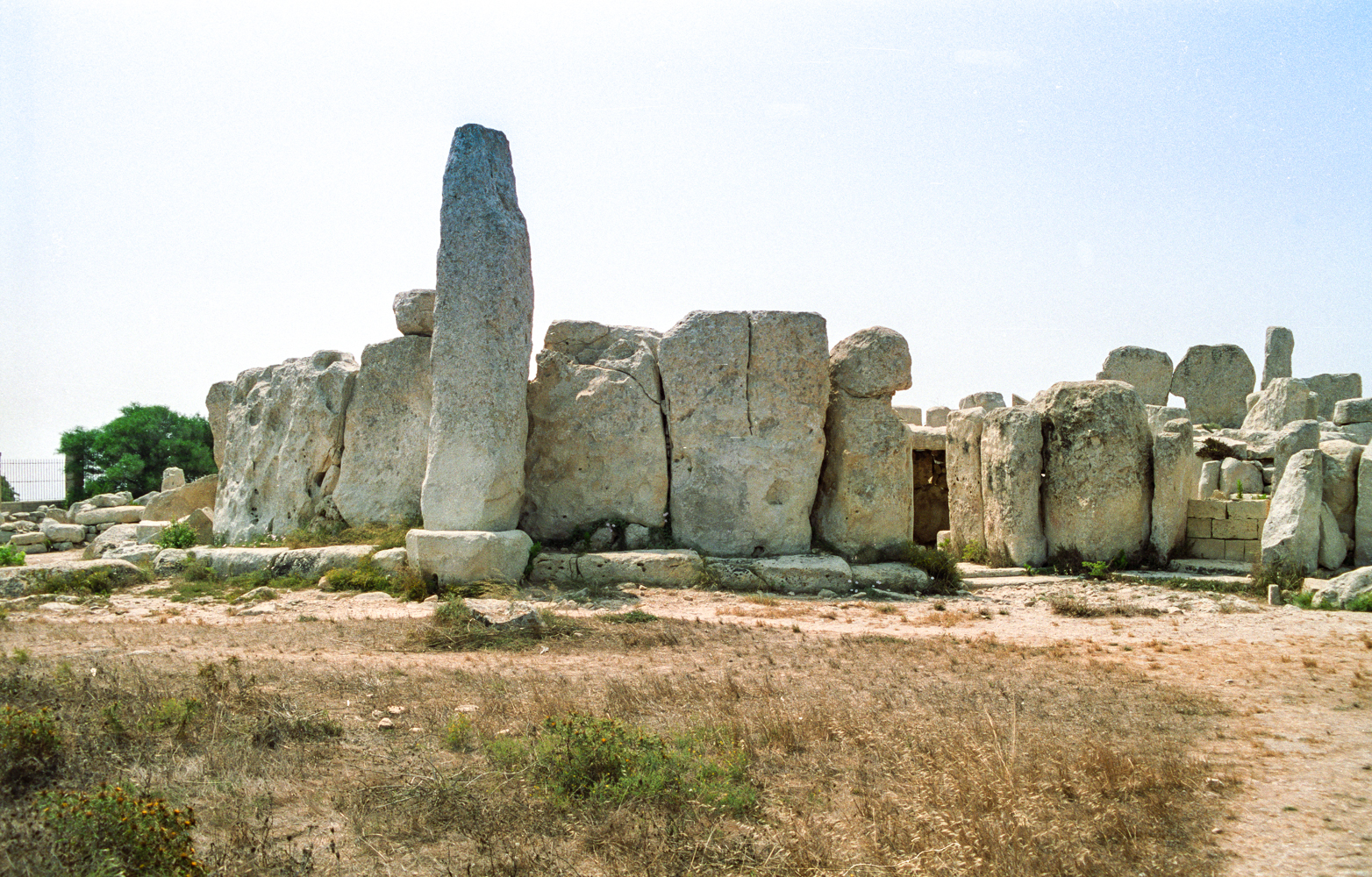 Temple of Hagar Qim